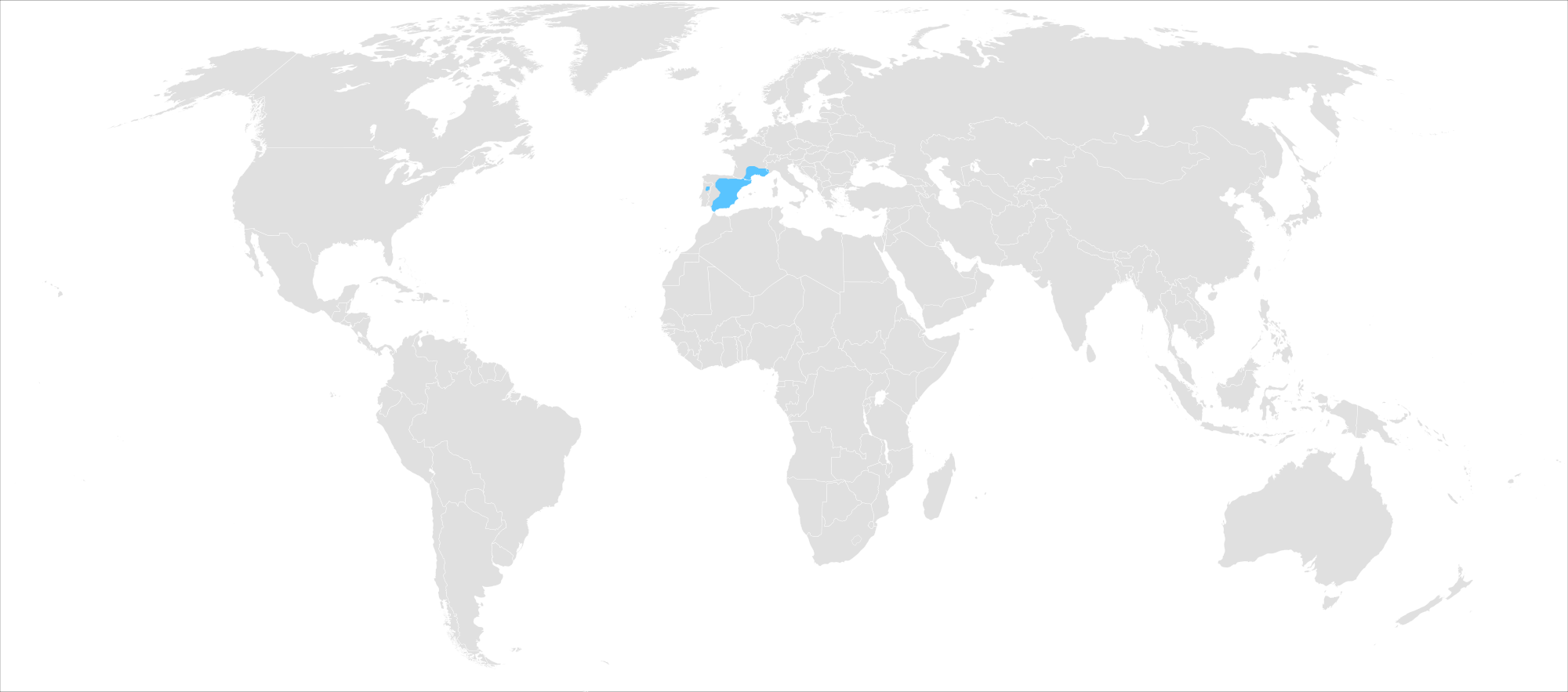 Approximate distribution of Satyrus actaea. Based on Tolman's guide map (2011)